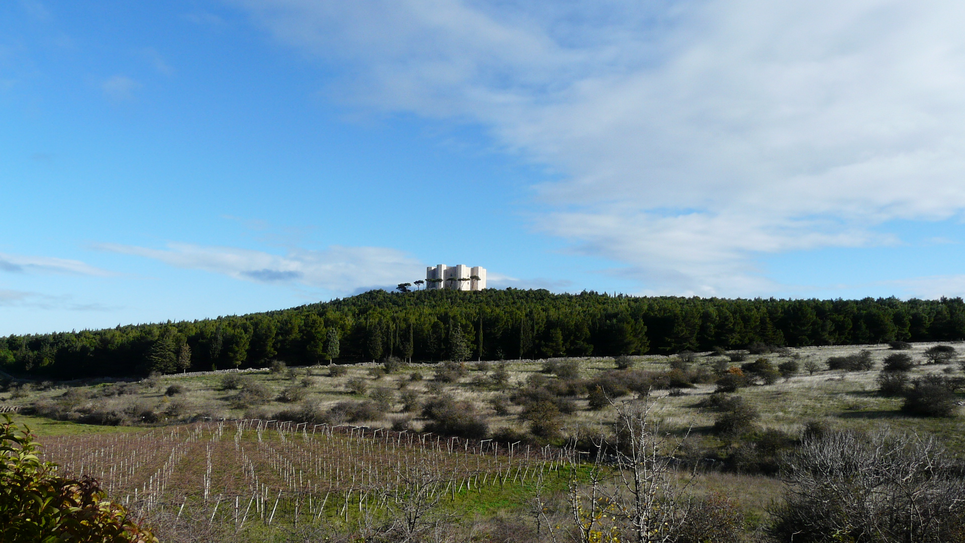 Andria, view of Castel del monte